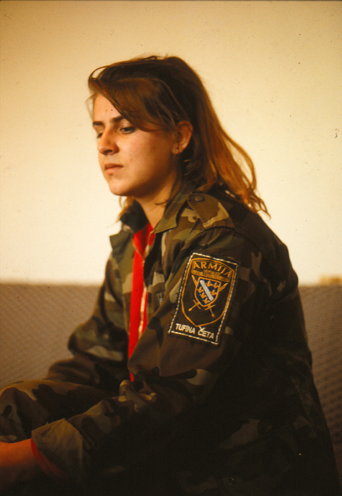 Pics from the first travel of Giovanni Zanchini to Visoko, Bosnia and Herzegovina, in 1992. Released under CC0 (Public Domain) within Osservatorio Balcani e Caucaso's "Cercavamo la pace" crowdsourcing project